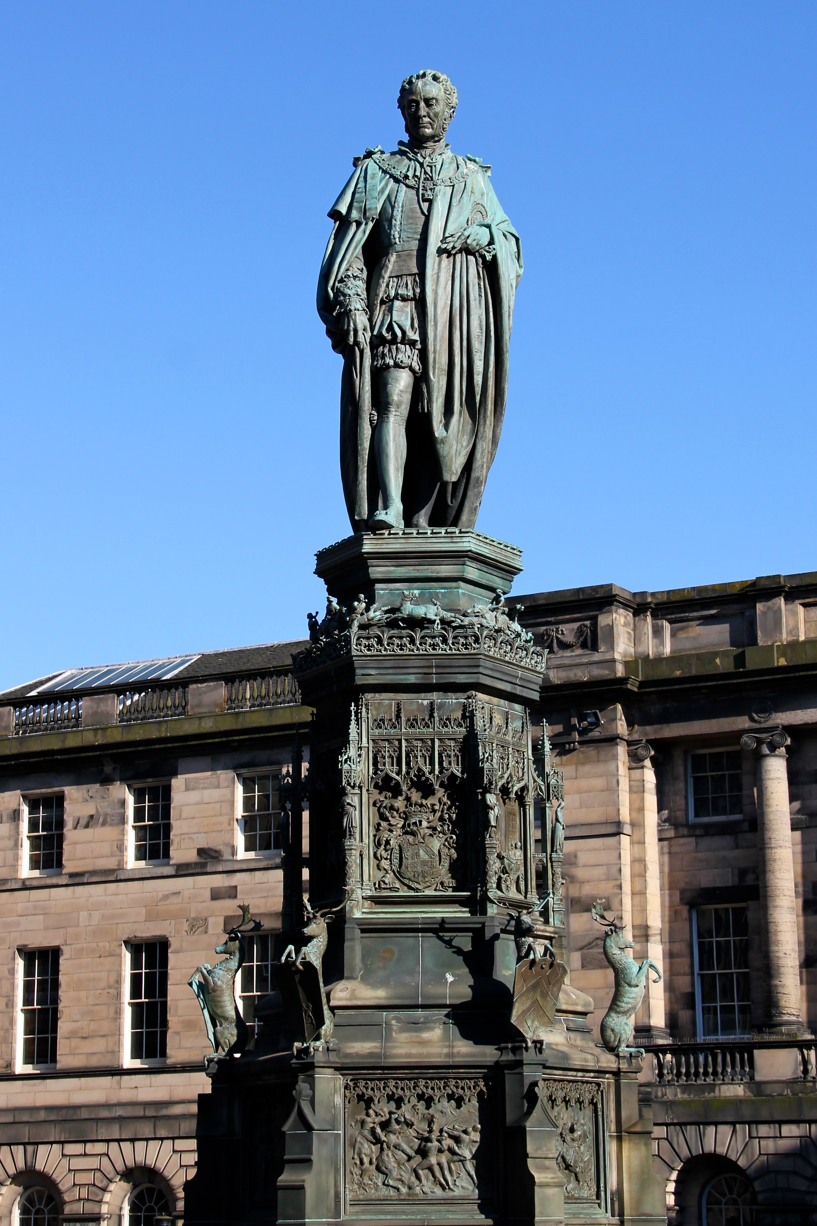 Statue of Walter Montagu Douglas Scott, 5th Duke of Buccleuch on the Parliament Square in Edinburgh, Scotland. The statue designed by J. Edgar Bohem was unveiled on 7th February 1888.